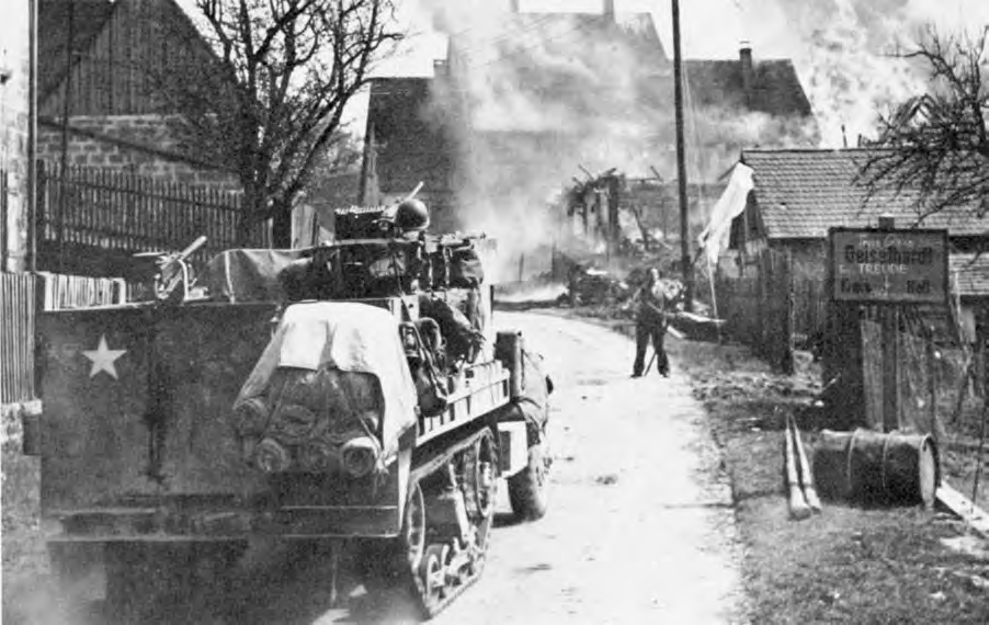 A German civilian, waving a white flag in surrender, comes toward a half-track which is about to enter Geißelhardt after shelling buildings in that town